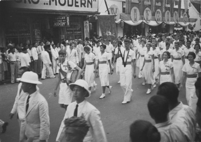 HBS club 'Temesias' members in the procession to celebrate the wedding of Princess Juliana and Prince Bernhard